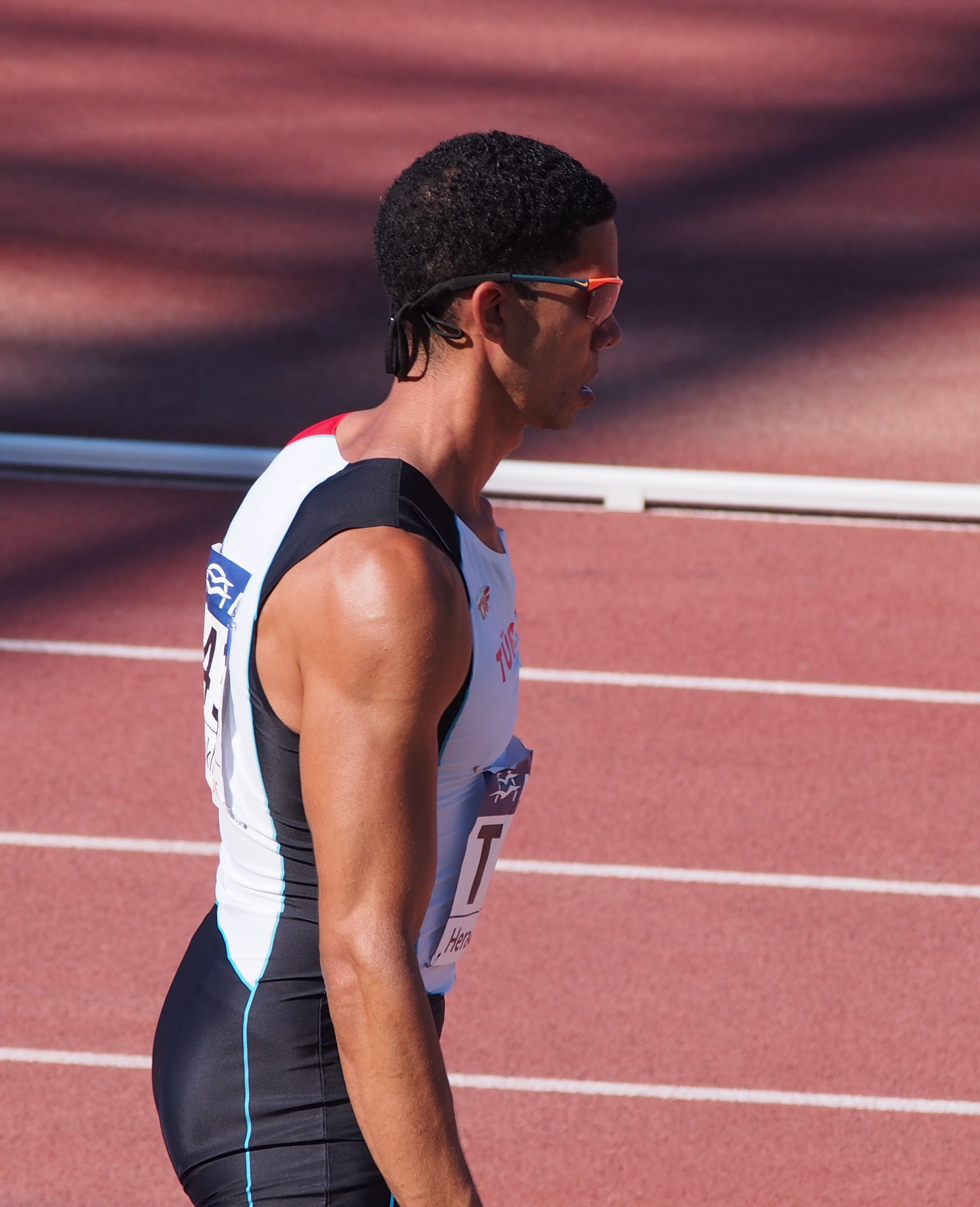 Yasmani Copello at 2015 European Teams Championships First League.